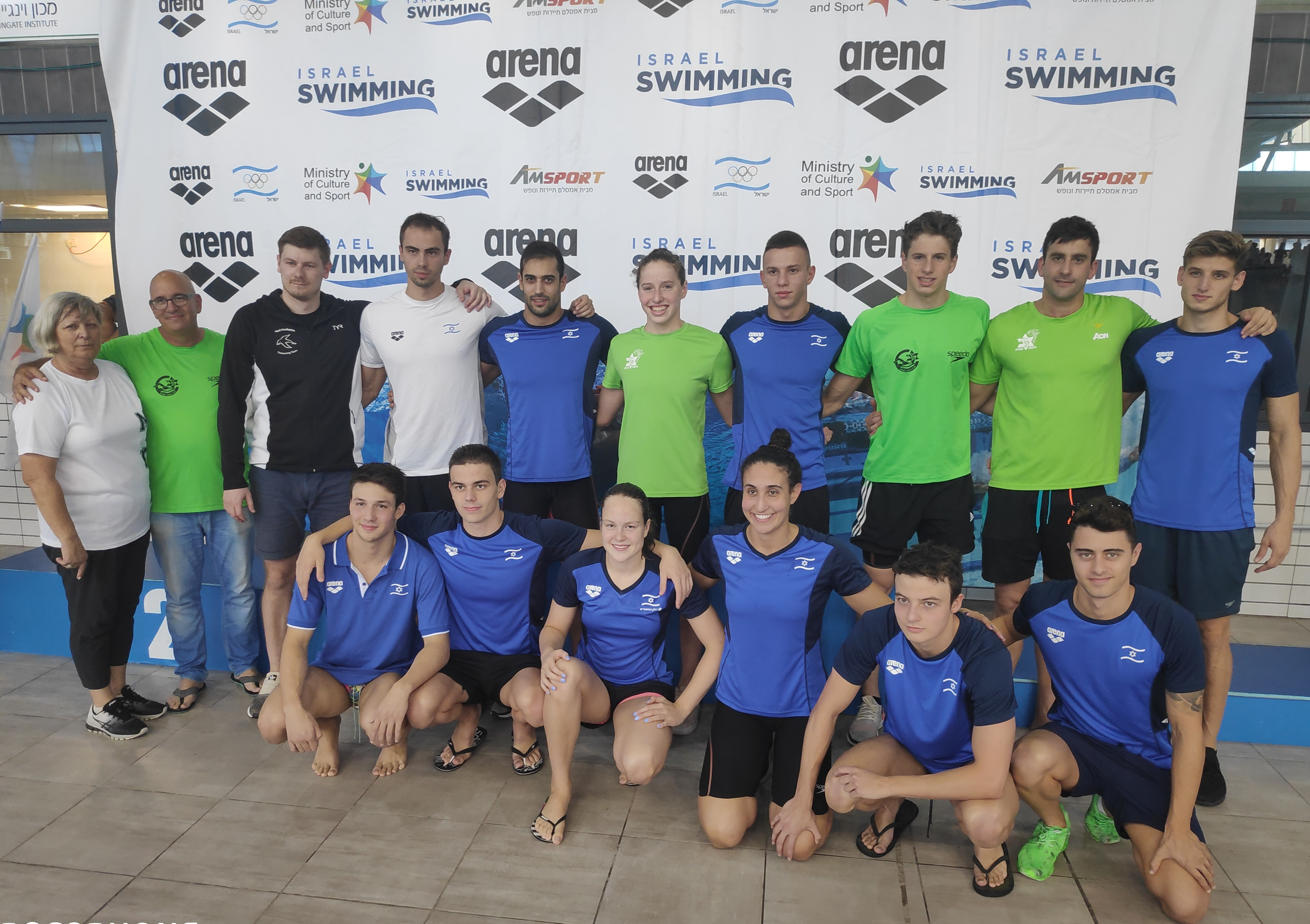 Israel swimming team, August 2019